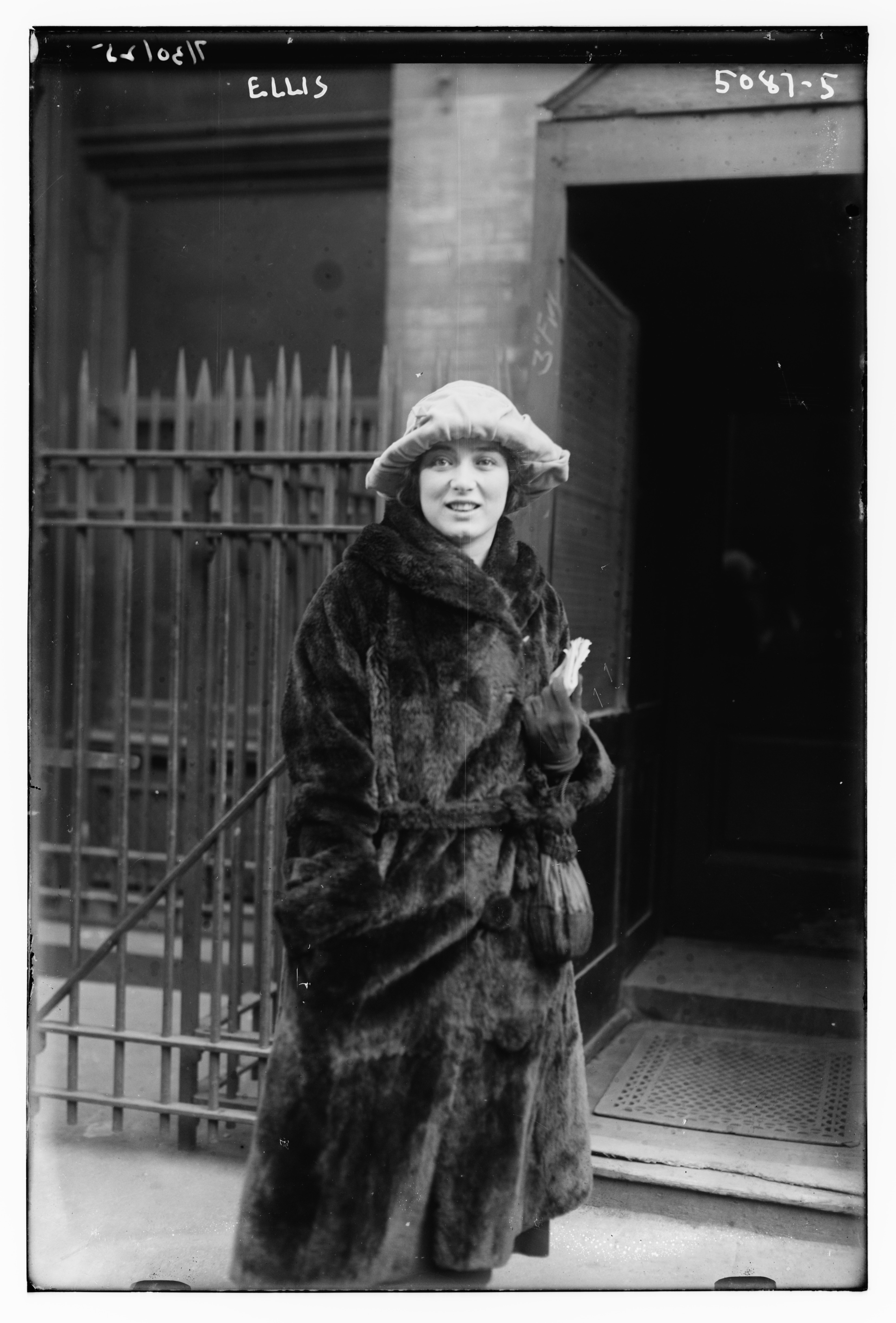 Mary Ellis at the stage door to the Metropolitan Opera in 1920